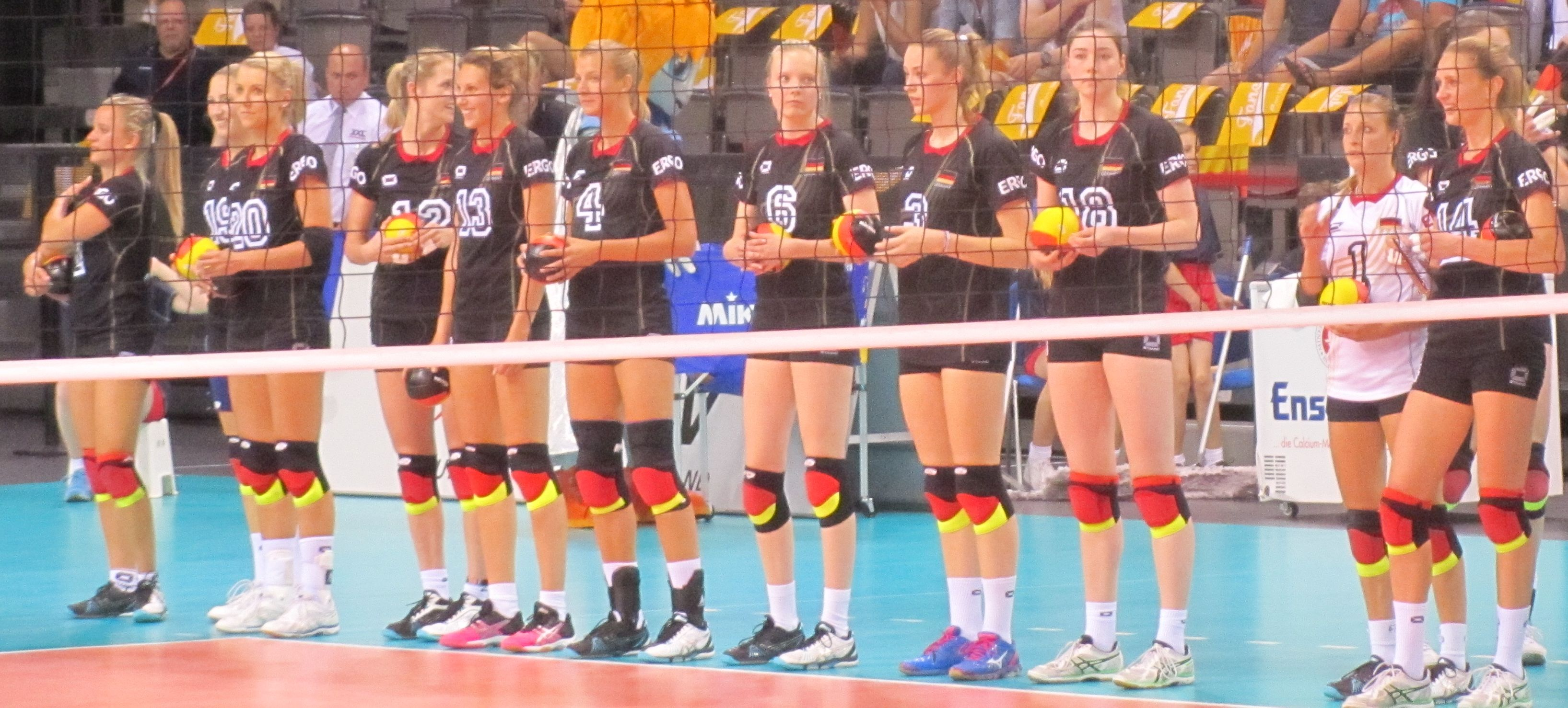 the German women's national volleyball team before the European League match versus Spain in Stuttgart